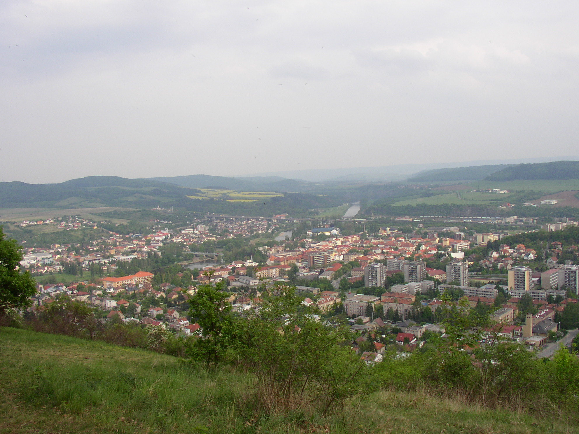 Town of Beroun in the Czech Republic as seen from northwest.